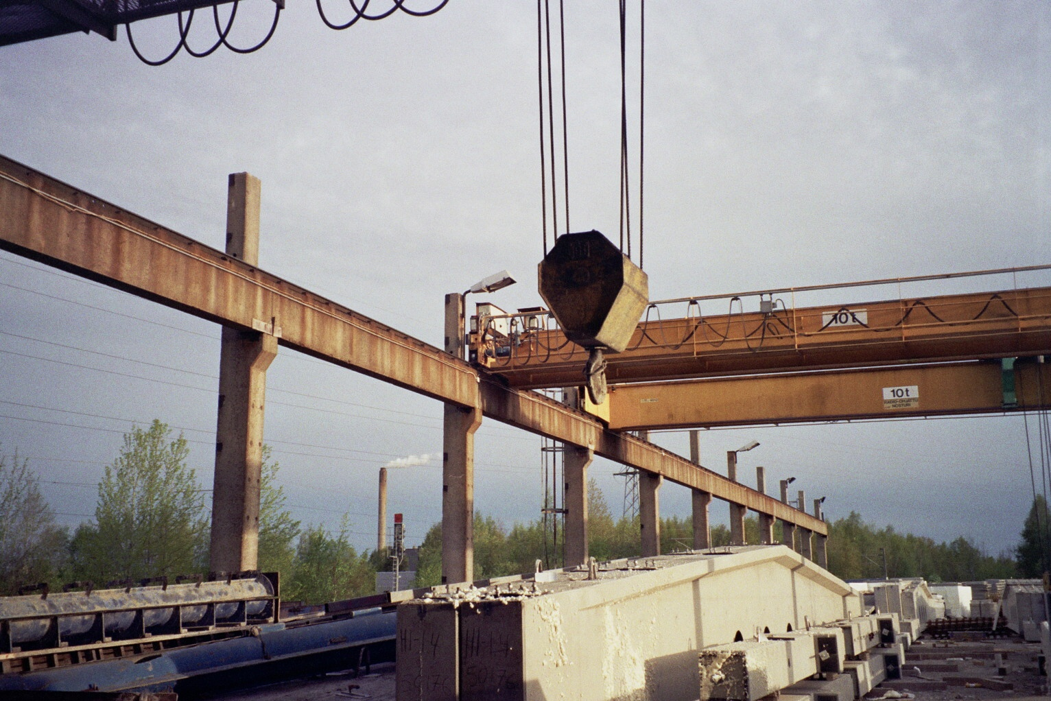 Overhead cranes at the factory of Rajaville, a manufacturer of concrete products, in Alppila, Oulu, Finland.